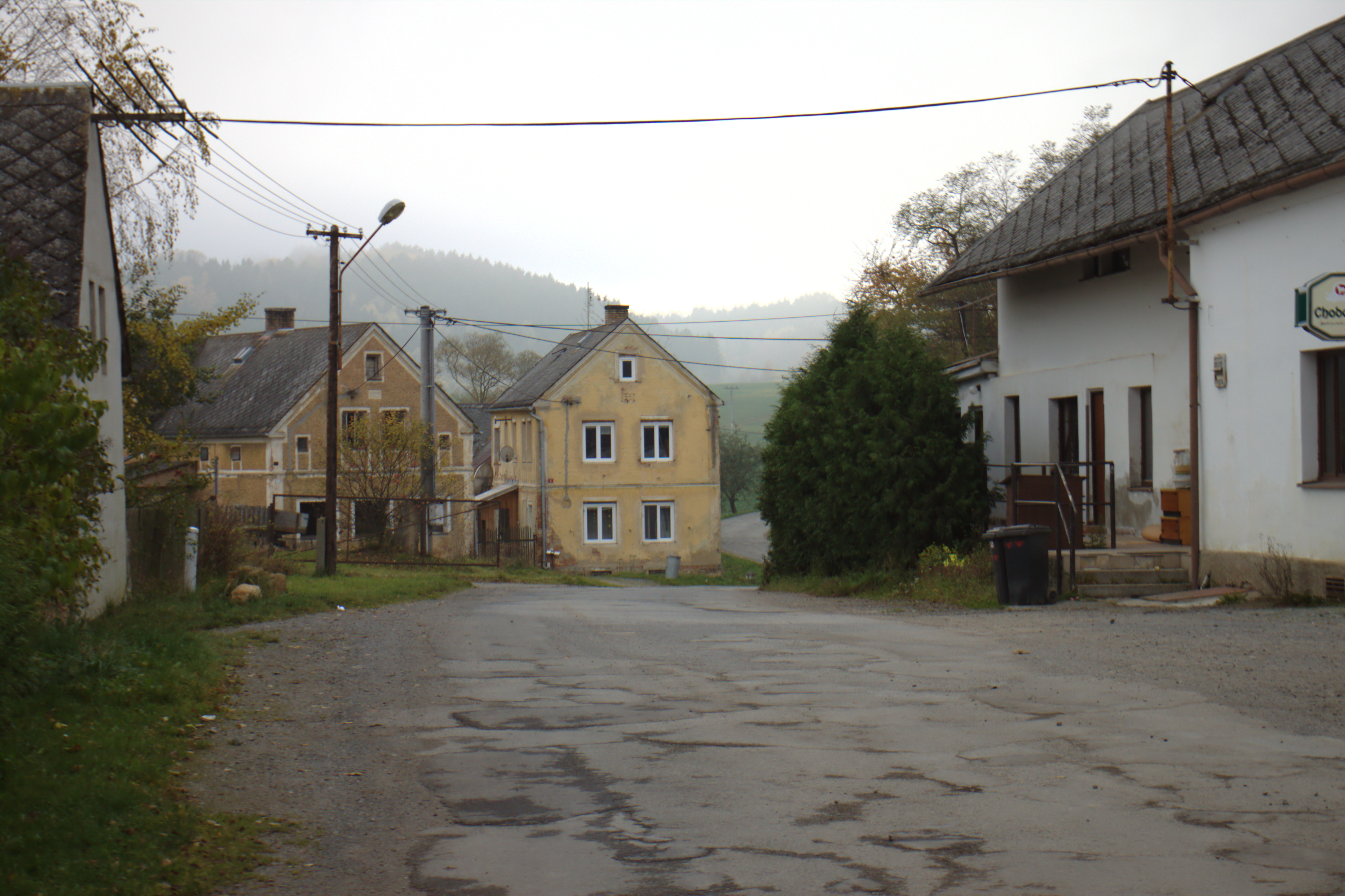 Various buildings at the main road in Vlkošov, Karlovy Vary Region, CZ